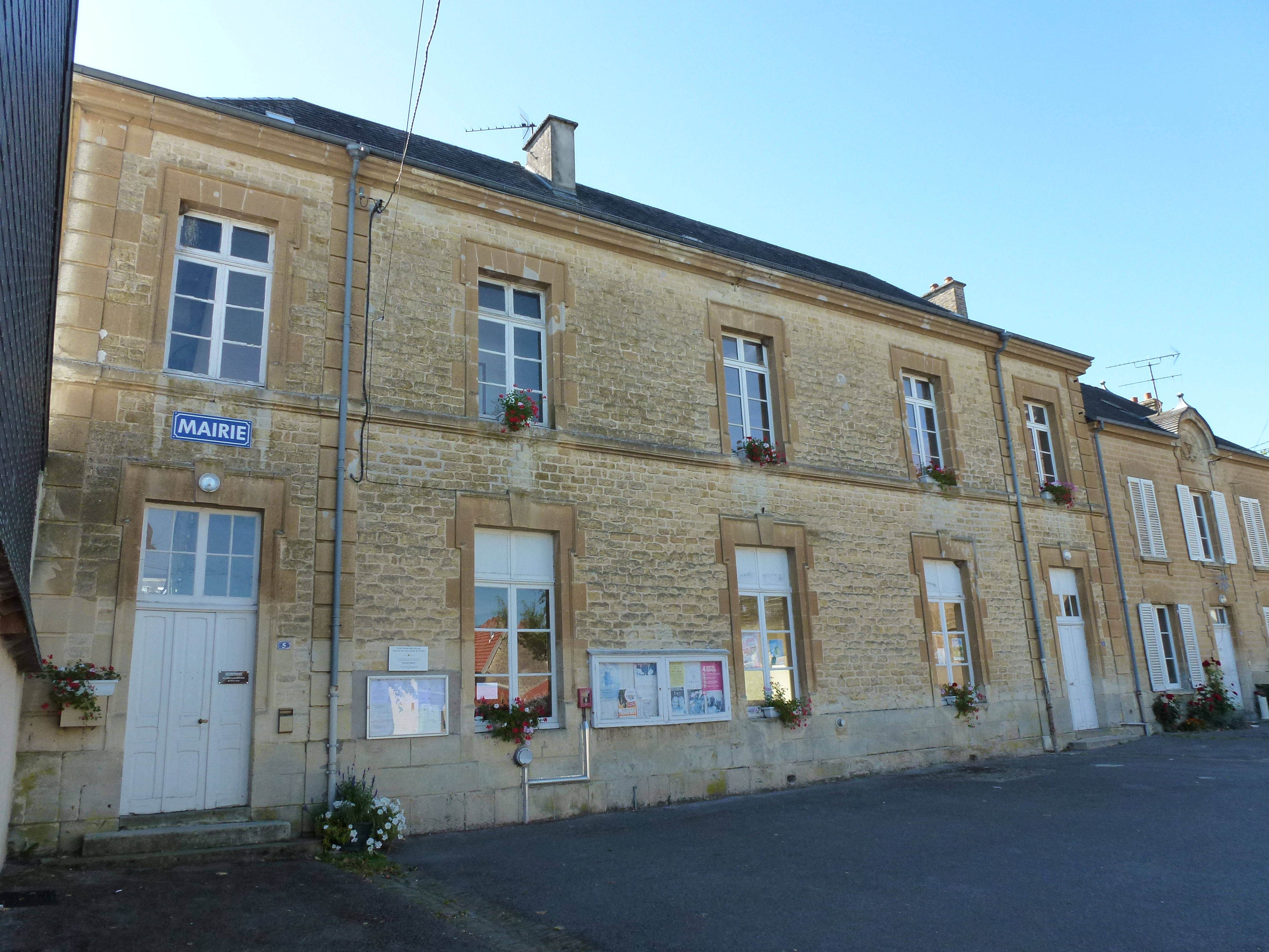 Tourteron (Ardennes) mairie